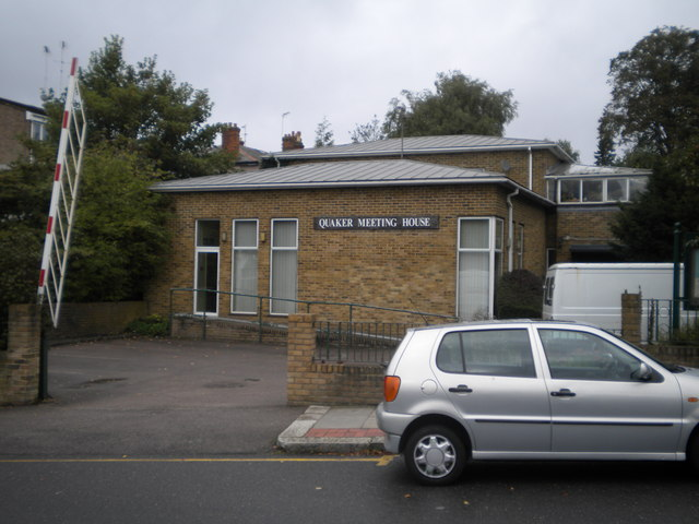 Quaker Meeting House, Alexandra Grove N12